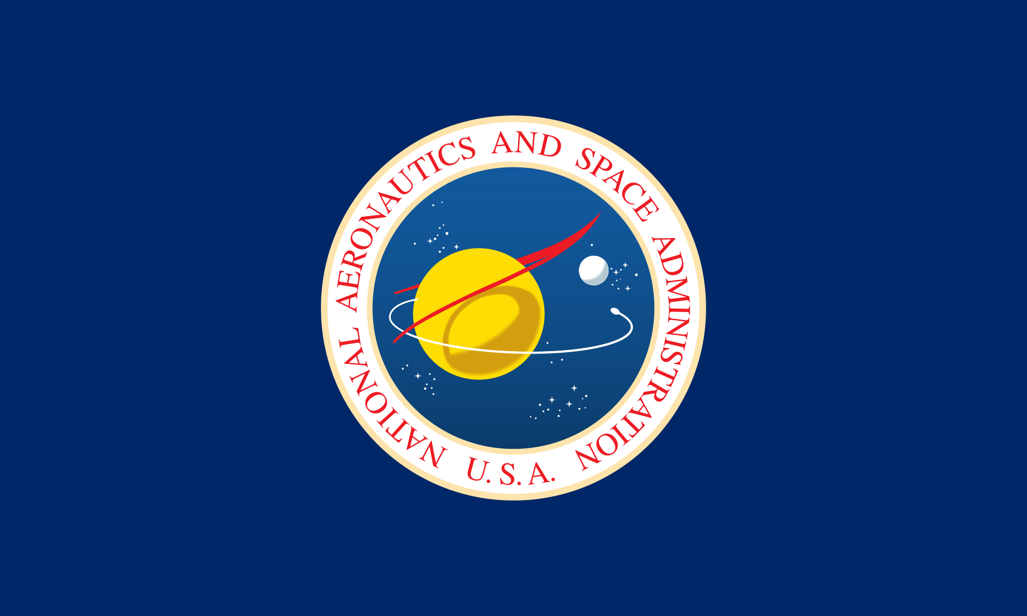 The official flag of the National Aeronautics and Space Administration (NASA).